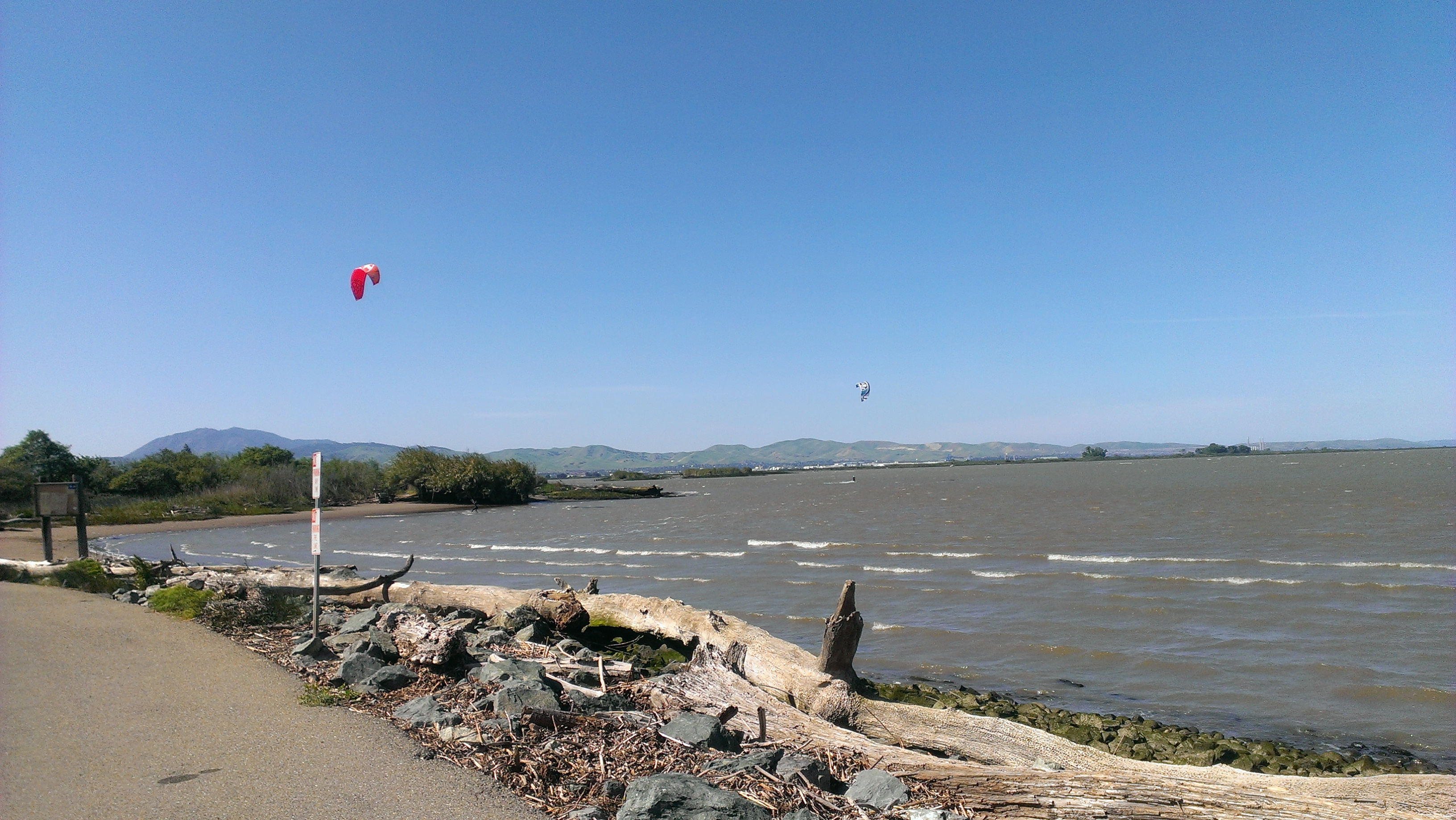 Windsurfers at Sherman Island, California